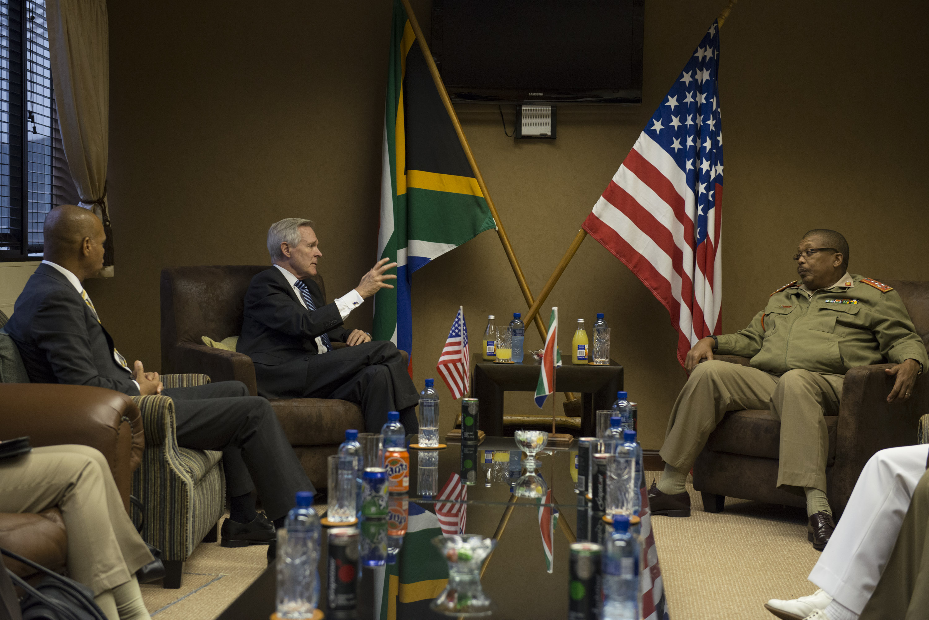 141118-N-LV331-003 PRETORIA, South Africa (Nov. 18, 2014) Secretary of the Navy (SECNAV) Ray Mabus meets with Chief of the South African National Defense Force Gen. Solly Zacharia Shoke to thank South Africa for their leadership in building regional partnerships, peacekeeping operations, and their support of counter-piracy operations in the region. South Africa is currently hosting the final planning conference for exercise Cutlass Express, a maritime exercise designed to improve interoperability between nations in the region, which is vital to maritime security. (U.S. Navy photo by Mass Communication Specialist 2nd Class Armando Gonzales/Released)